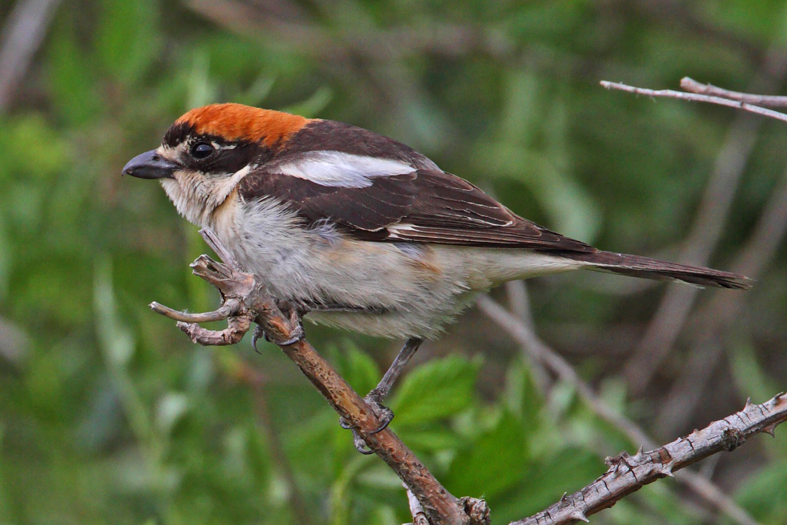 Woodchat Shrike